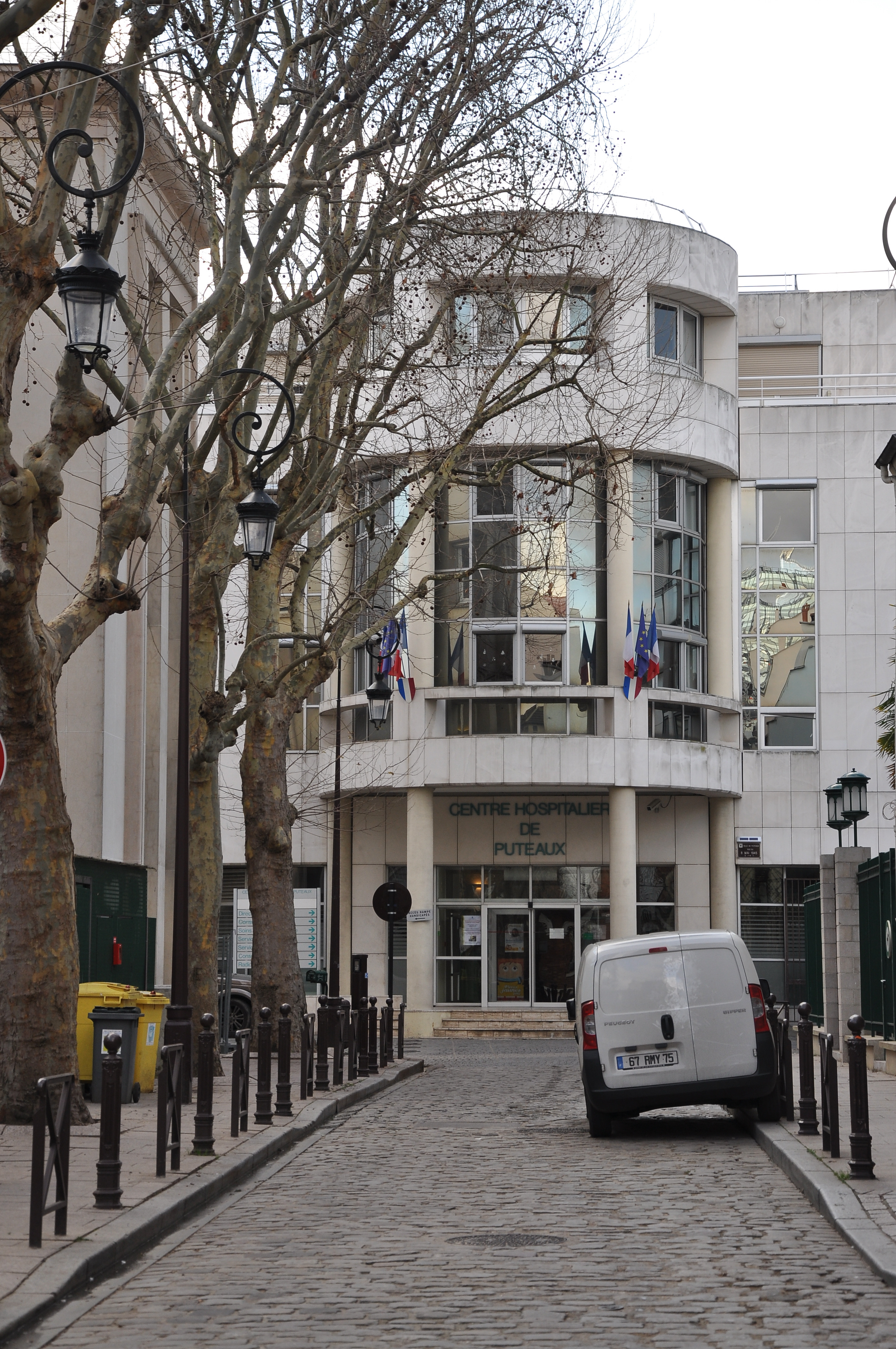 Hospital center of Puteaux in Hauts-de-Seine department, France.